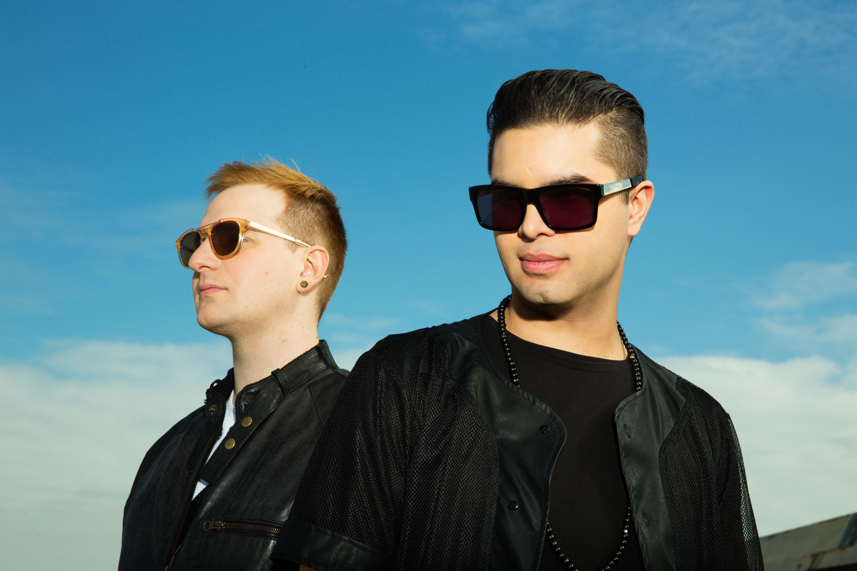 Ephwurd: Datsik and Bais Haus